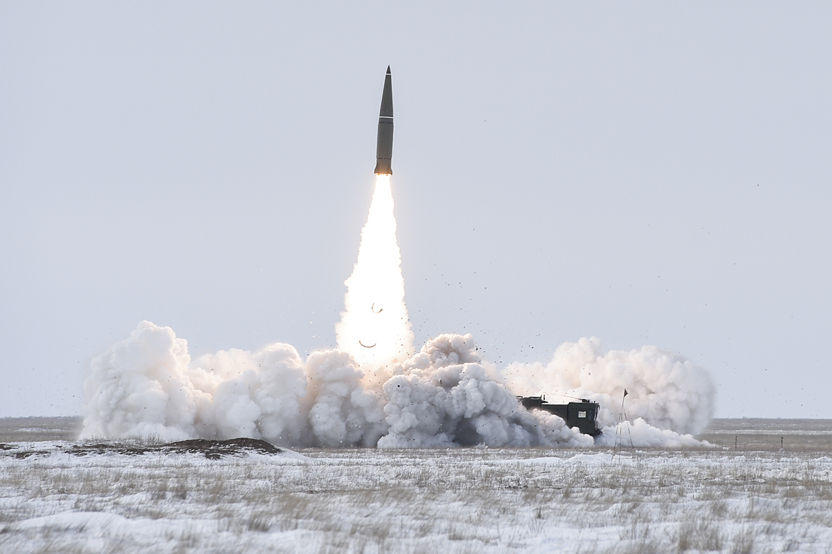 Combat launching of the Iskander-M in the Kapustin Yar proving ground.